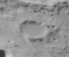 Oblique view of Peters crater, facing northwest, on the moon.